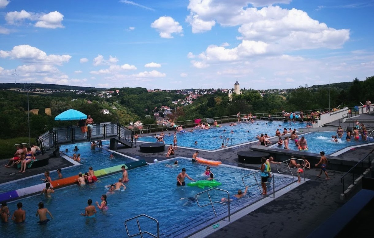 Panoramabad Stromberg